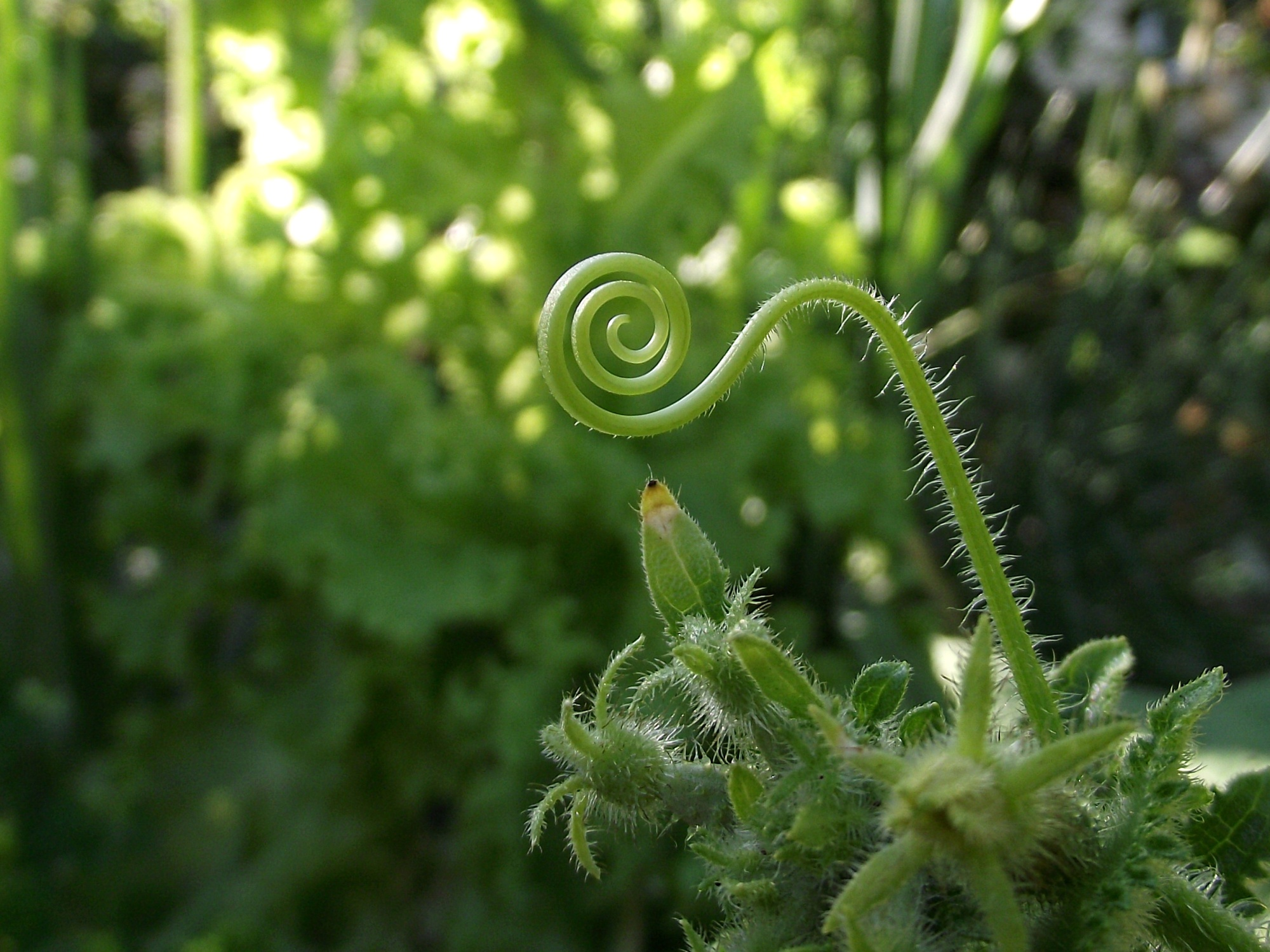 Cucumber tendril. Pictured in Paide, Estonia.